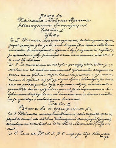 Excerpt from the statute of SMARO, 1902 (in Bulgarian) Statute of the Secret Macedonian-Adrianople Revolutionary Organization Chapter I. - Goal Art. 1. The Secret Macedonian-Adrianople organization has the goal of uniting all the disgruntled elements in Macedonia and the Adrianople region, regardless of their nationality, to win, through a revolution, a full political autonomy for these two regions. Art. 2. To achieve this goal the organization fights to throw over the chauvinist propagandas and nationalist quarrels that are splintering and discouraging the Macedonian and Adrianople populations in his struggle against the common enemy; acts to bring in a revolutionary spirit and consciousness among the population, and uses all the means and efforts for the forthcoming and timely armament of the population with all that is needed for a general and universal uprising. Chapter II. - Structure and Organization Art. 3. The Secret Macedonon-Adrianoplitan revolutionary organization consists of local revolutionary organizations (bands) consisting of the members of local towns or villages. Art. 4. A member of SMARO can be any Macedonian, or Adrianoplitan...